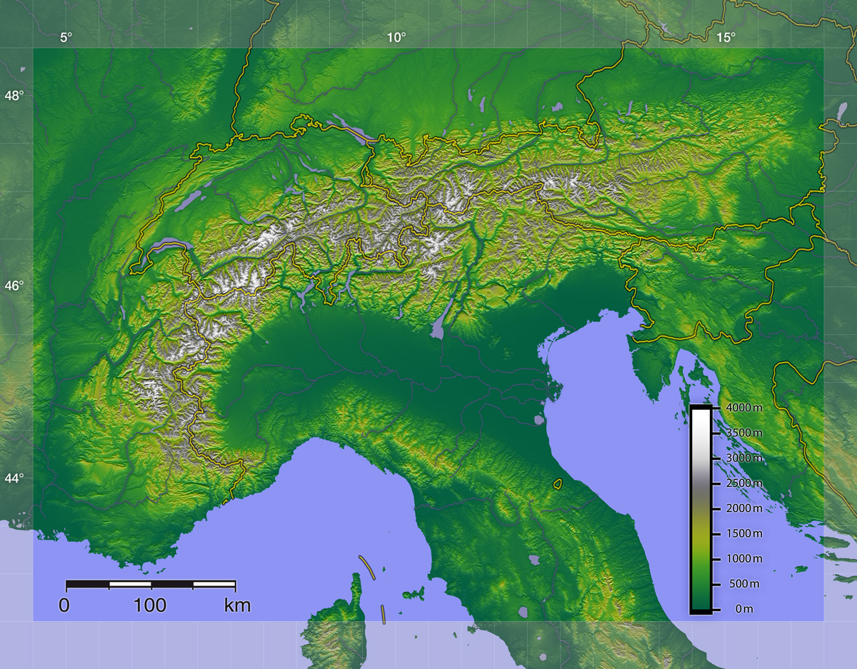 Digital relief of the Alps; France, Italy, Switzerland, Germany, Liechtenstein, Austria and Slovenia.